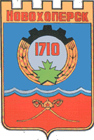 Coat of Arms of Novohopersk (Voronezh oblast)